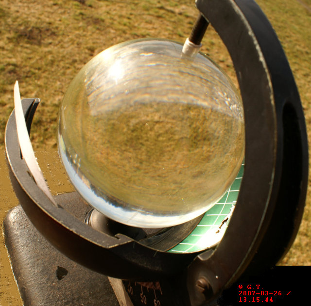 Heliograph (Campbell-Stokes sunshine recorder)